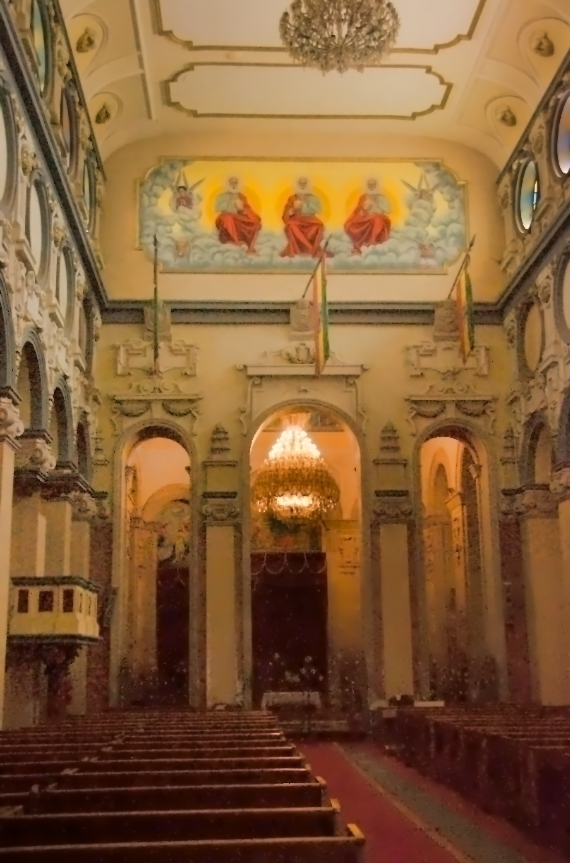 The wall painting at the back of the nave depicts the Holy Trinity. Based on a half-remembered prayer, I think it's safe to assume the Father is at the center, the Son is at the Father's right (our left), and the Holy Spirit is on our right. I took the photo in natural light without flash. I am pleased with the way it turned out, especially with the tones of yellow, peach, rose and red. The good thing about processing images so long after the fact is I have absolutely no idea whether the space actually looked like this. But it's fun to pretend it did, because it is so warm and attractive. The flags hanging at the end of the room are from various branches of the Ethiopian Imperial Armed Forces.